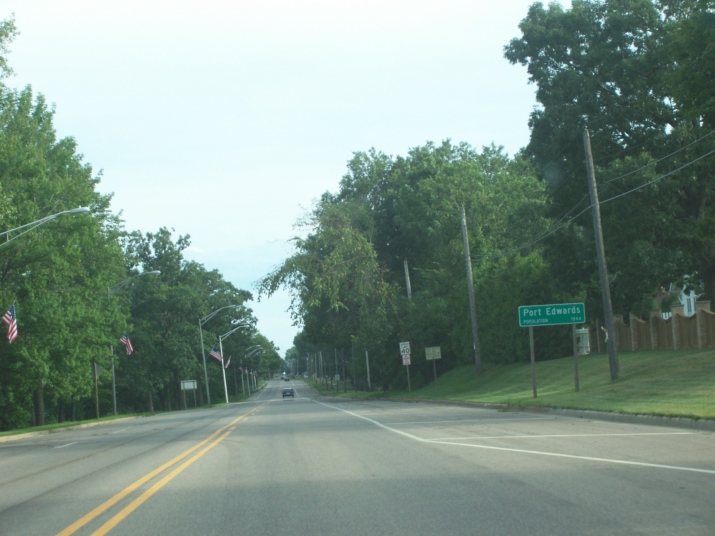 Looking south at the population sign for Port Edwards, Wisconsin on Wisconsin Highway 54 / Wisconsin Highway 73.